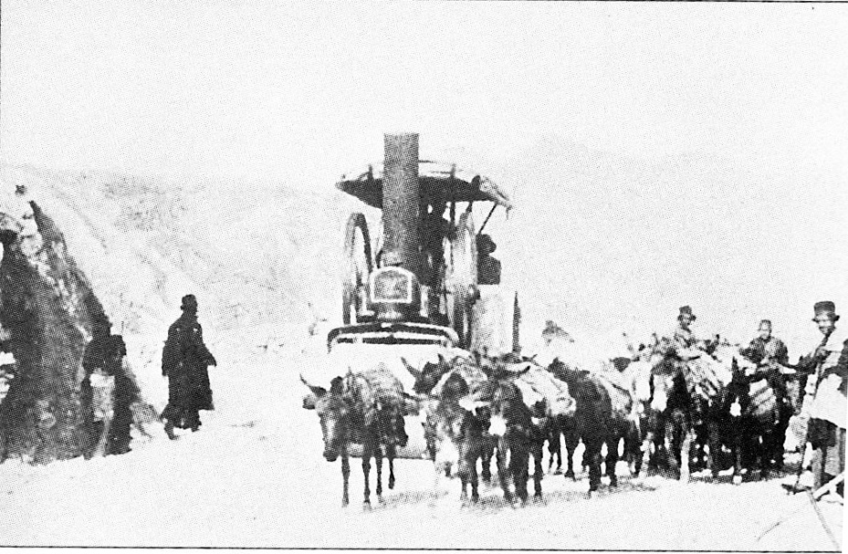 Iran, road construction, 1926